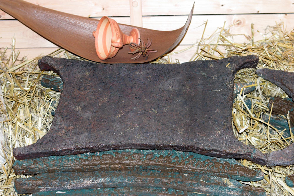 Description: Copper bar from the shipwreck at Uluburun with typical bronze age-shape. Source: own work Date: June 2006 Author: Martin Bahmann